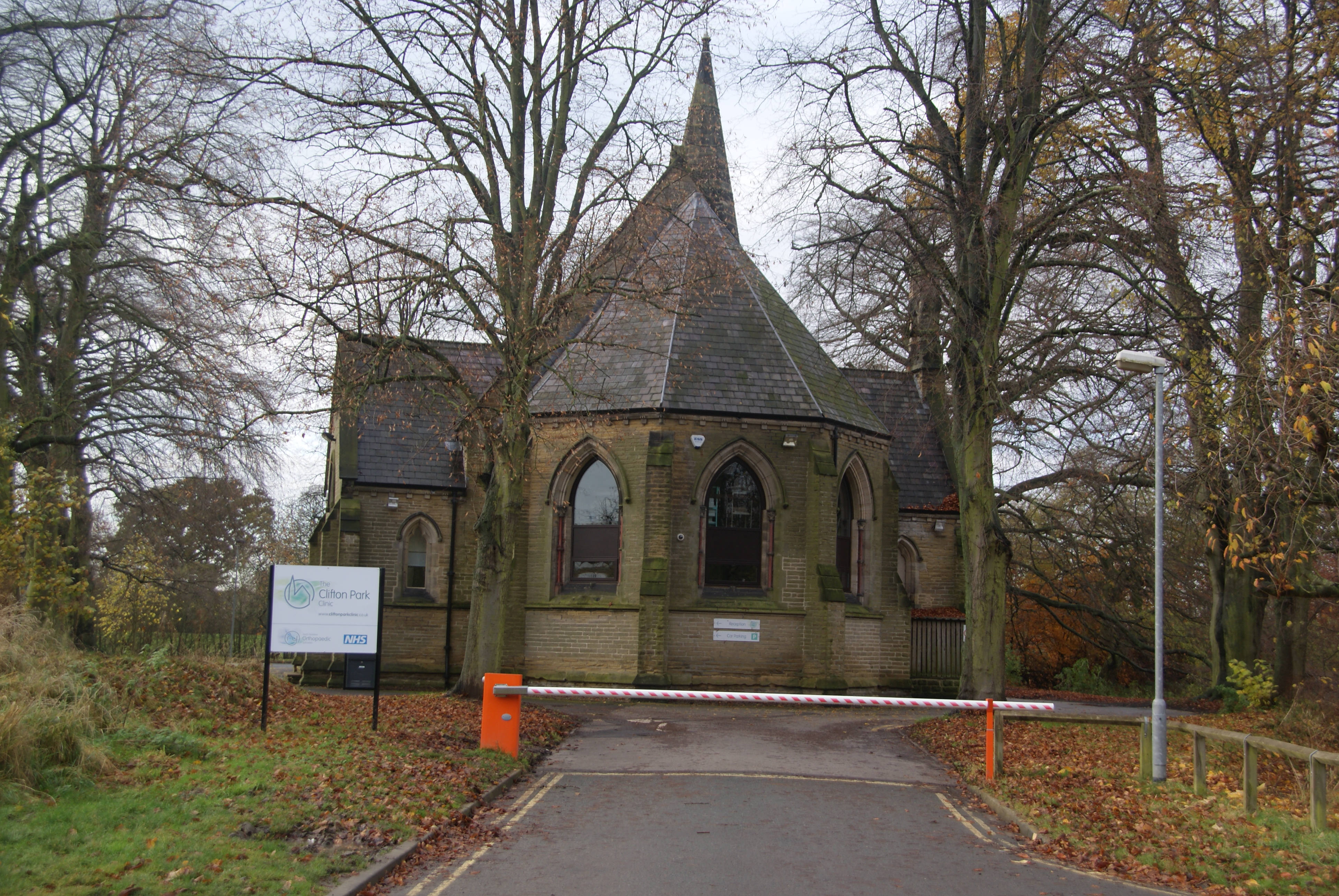 Clifton Park Orthopaedic Clinic